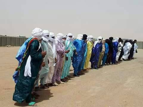 Northern Malians wait for Prime Minister Soumeylou Boubeye Maïga during his official visit in Tessalit, 22 March 2018 (VOA/Kassim Traoré)